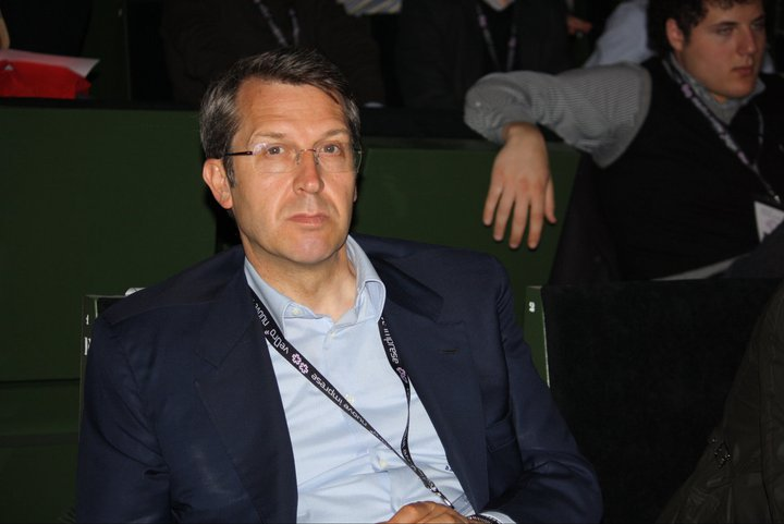 Benedetto Della Vedova